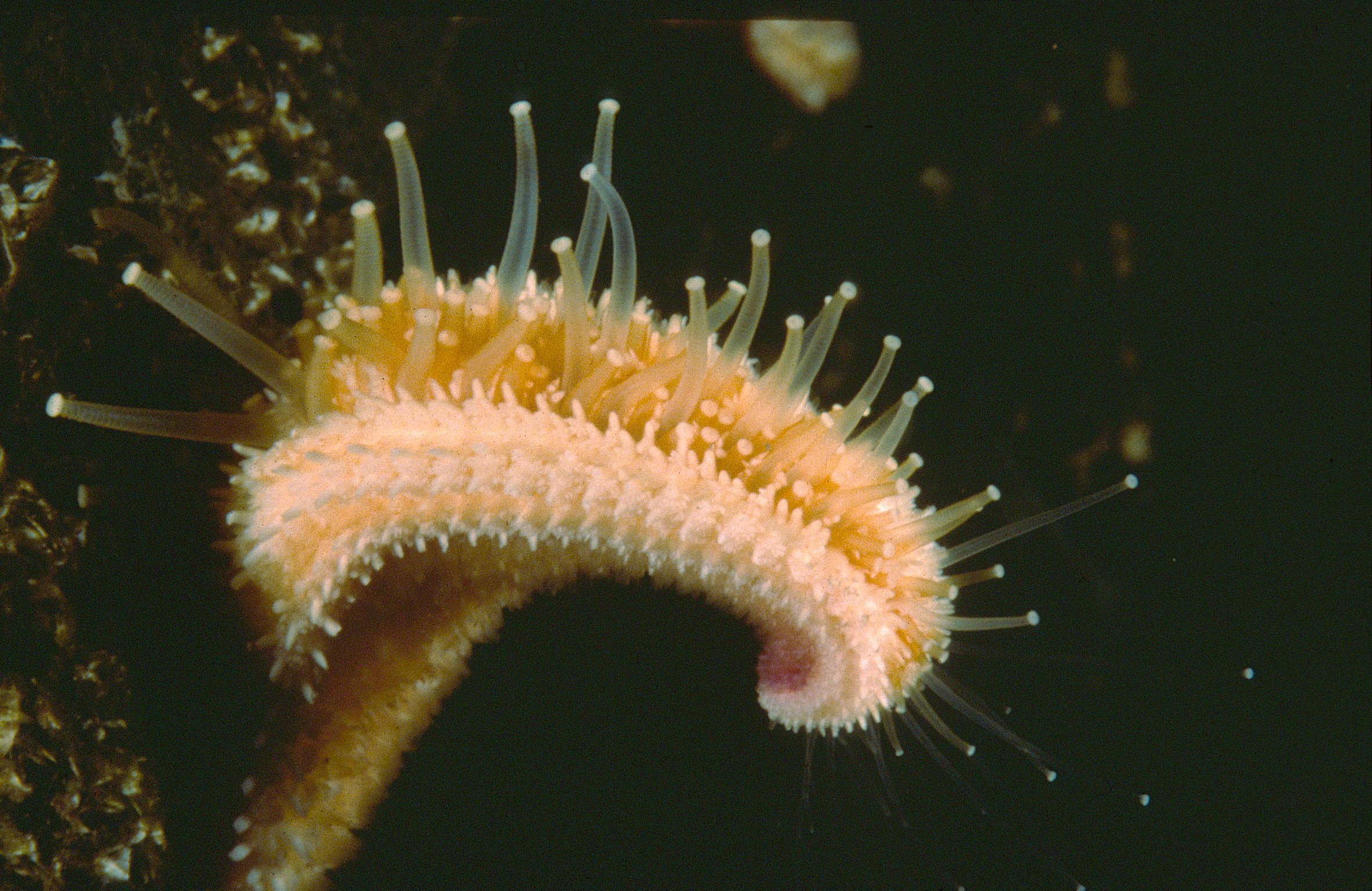 Asterias amurensis, the Northern Pacific seastar, was accidentally introduced into Australia in the 1980s. It is found in the Derwent Estuary (Hobart), Tasmania and Port Phillip Bay, Victoria.